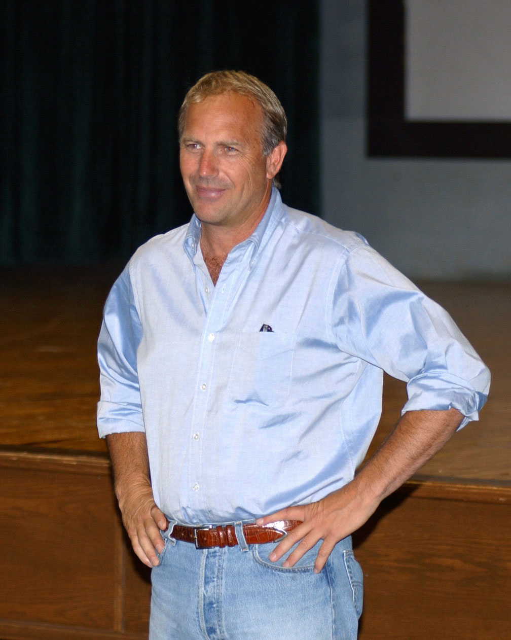 Actor and director Kevin Costner while visiting Andrews Air Force Base.